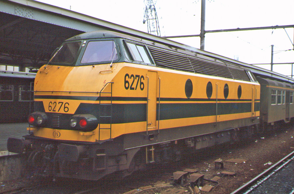 SNCB class 62, Ostend, 13 February 1980.